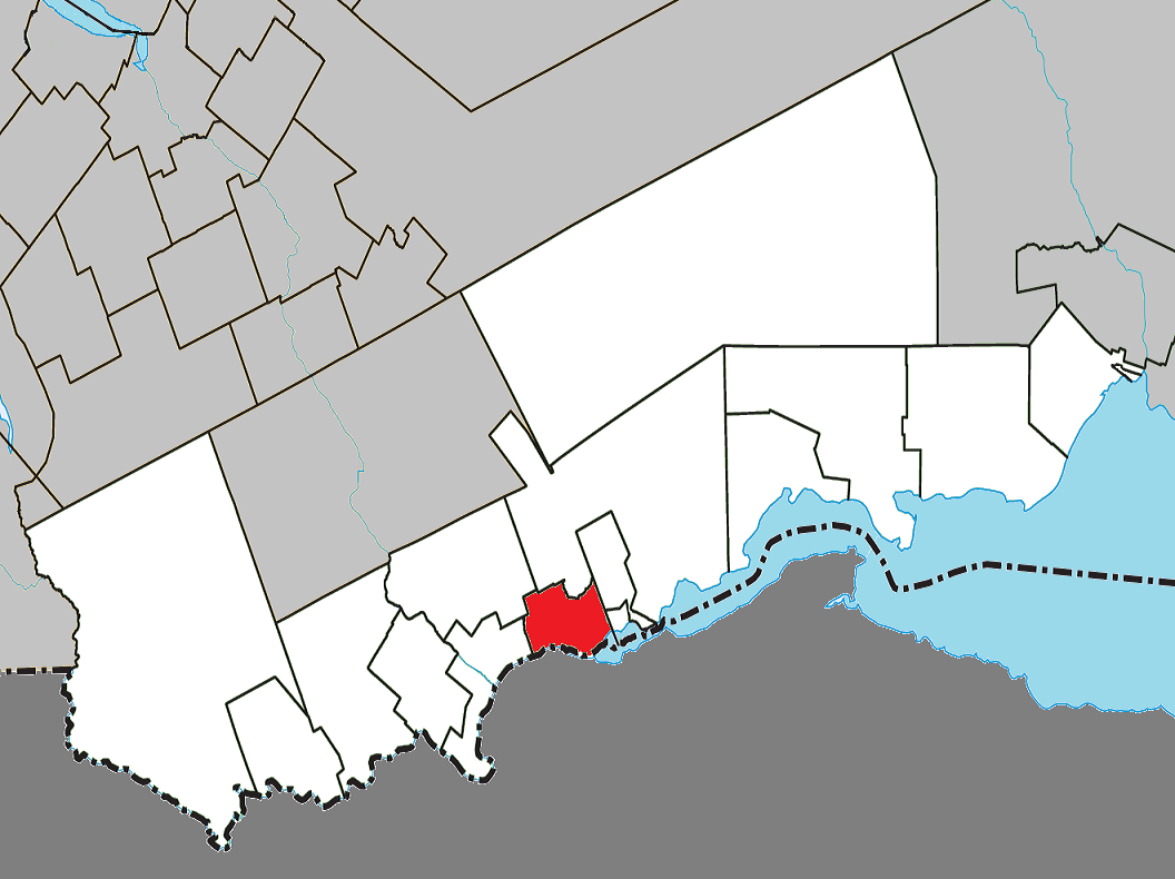 Location of Ristigouche-Partie-Sud-Est, Quebec within Avignon Regional County Municipality.